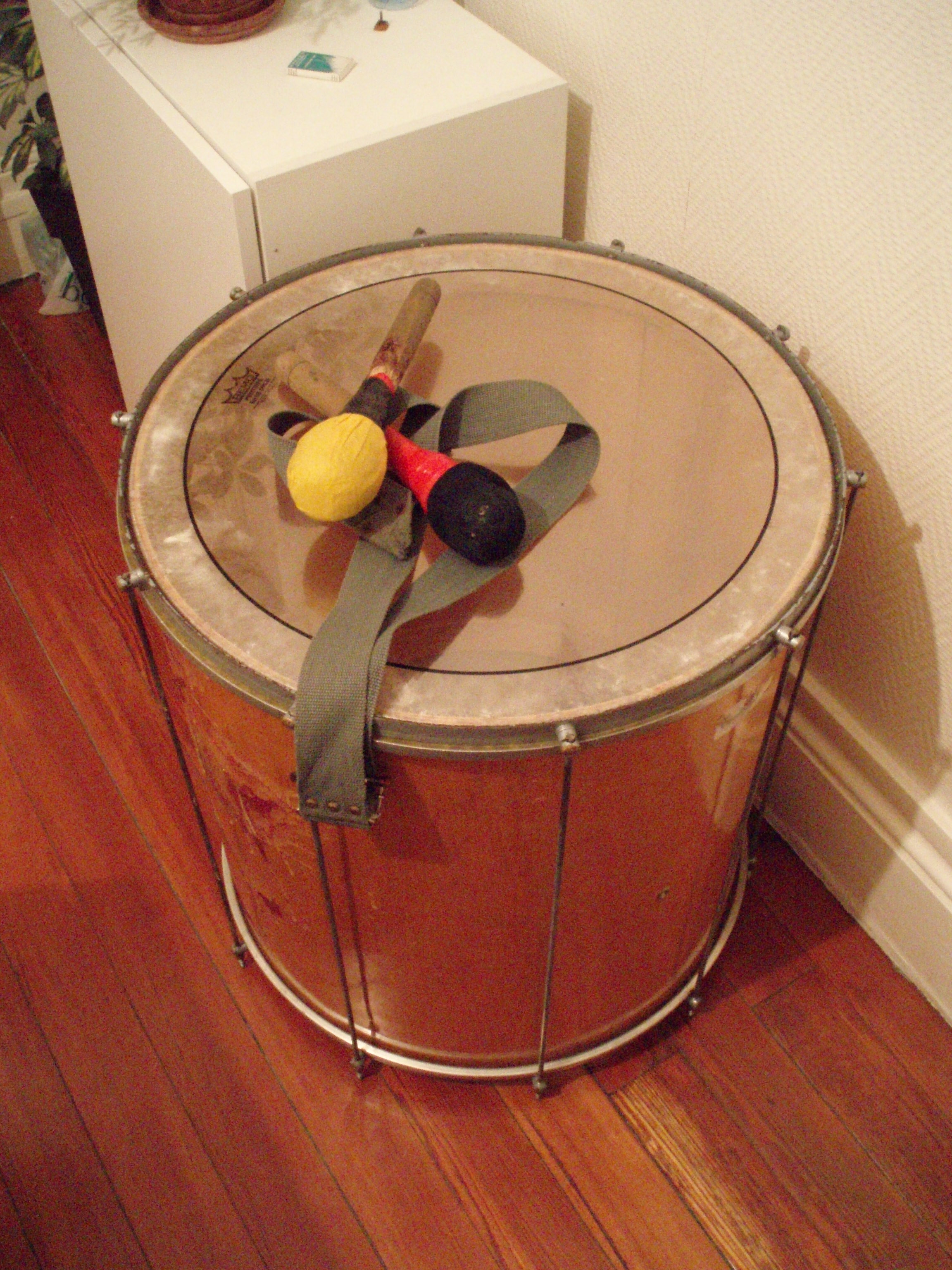 Surdo, Brazilian percussion.